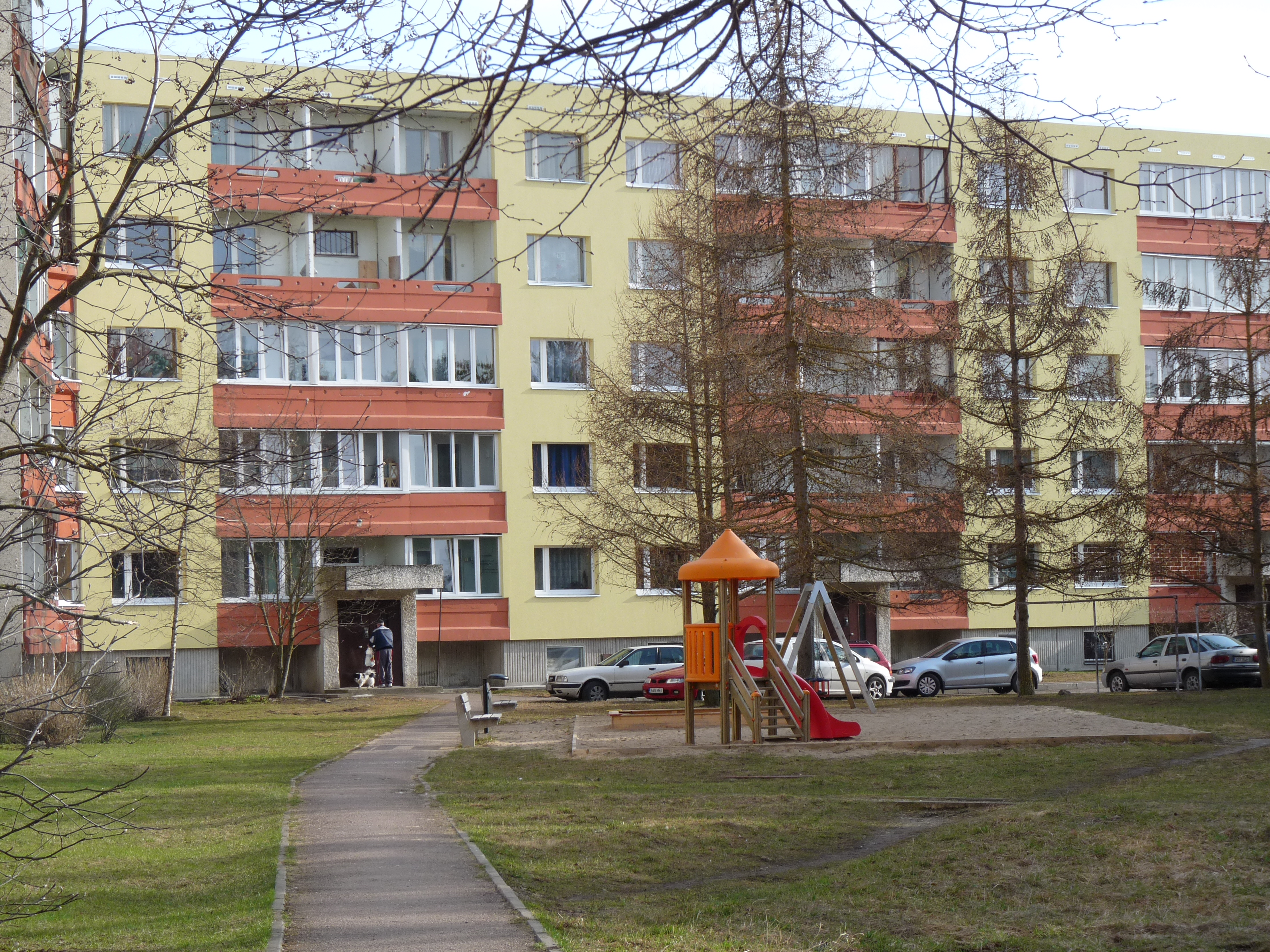 Playground in Ümera street